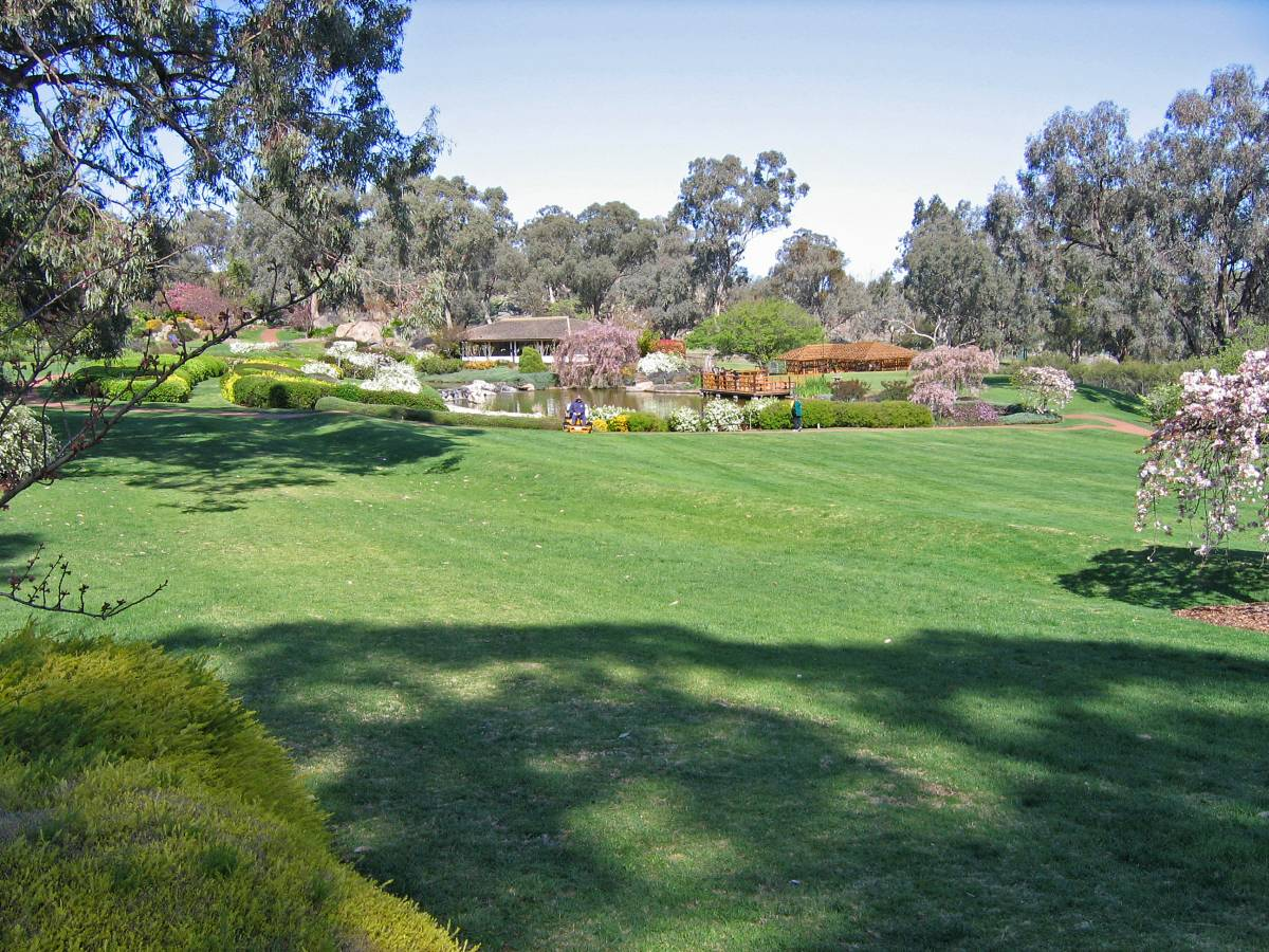 Lawns and lake at the Japanese Gardens, Cowra, NSW, Australia, 22 September, 2006.